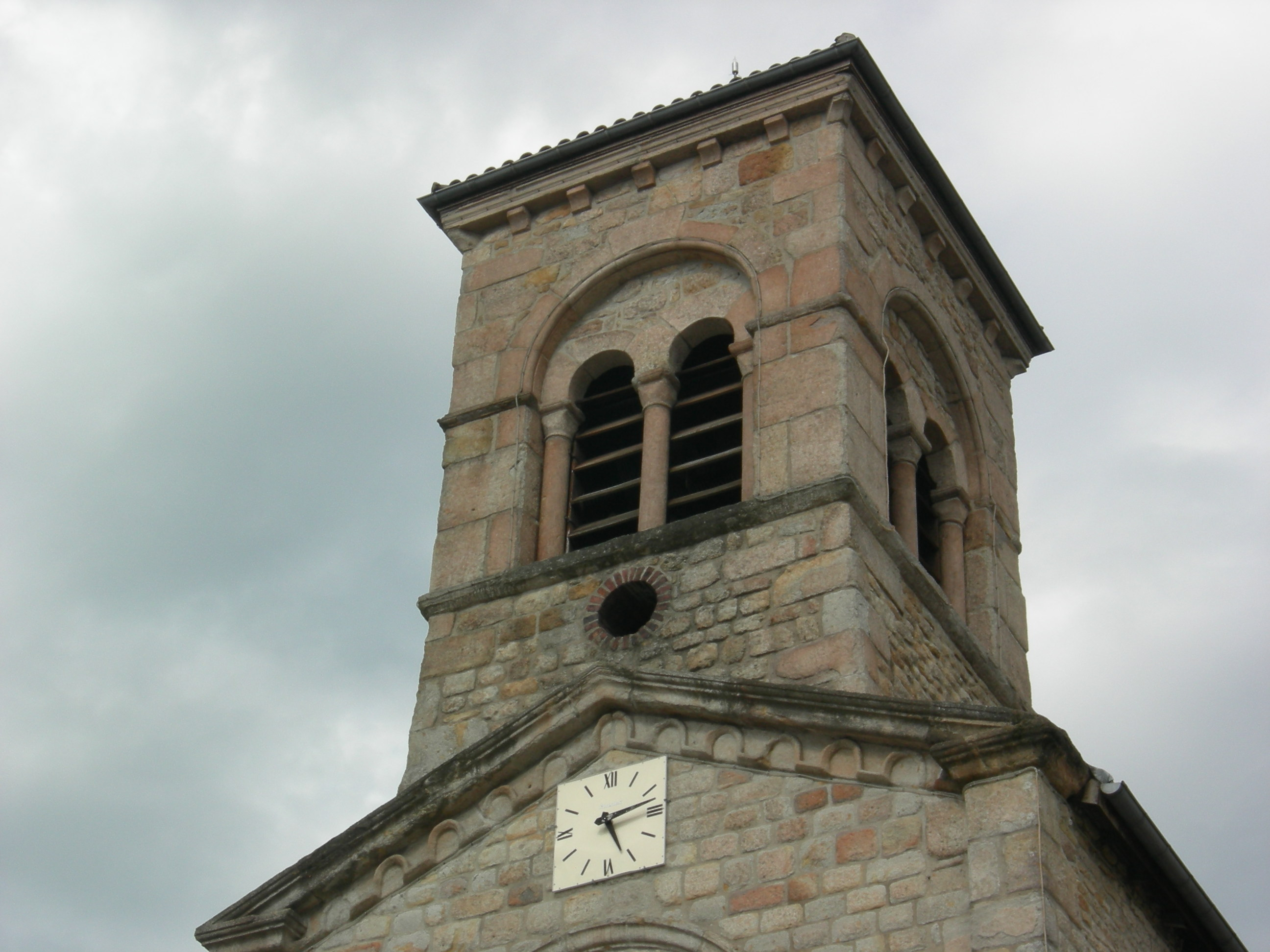 saint priest church